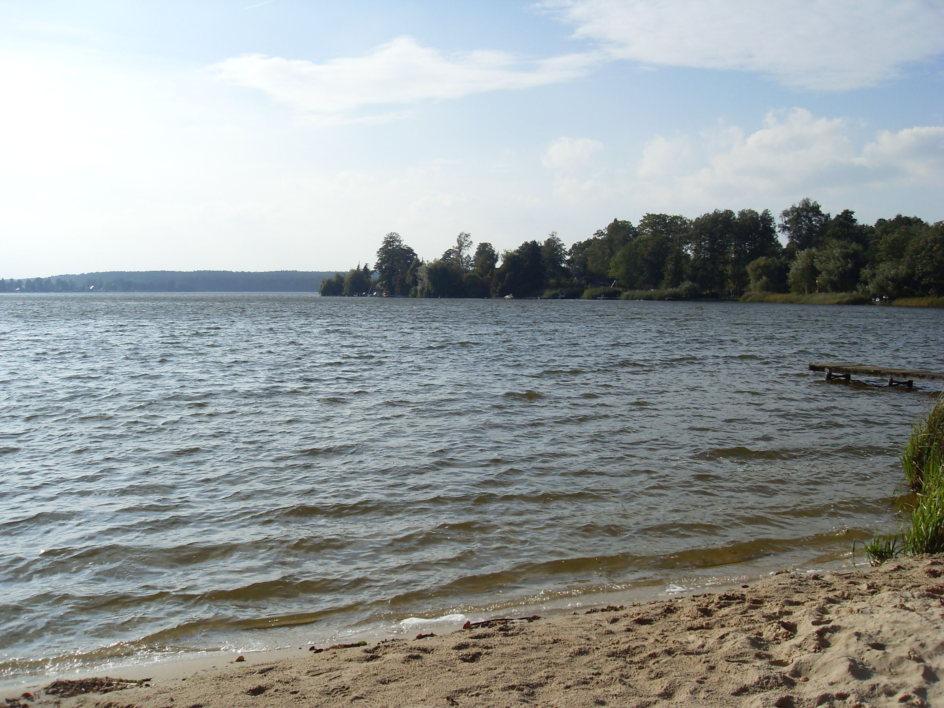 Teupitzer See (2009)